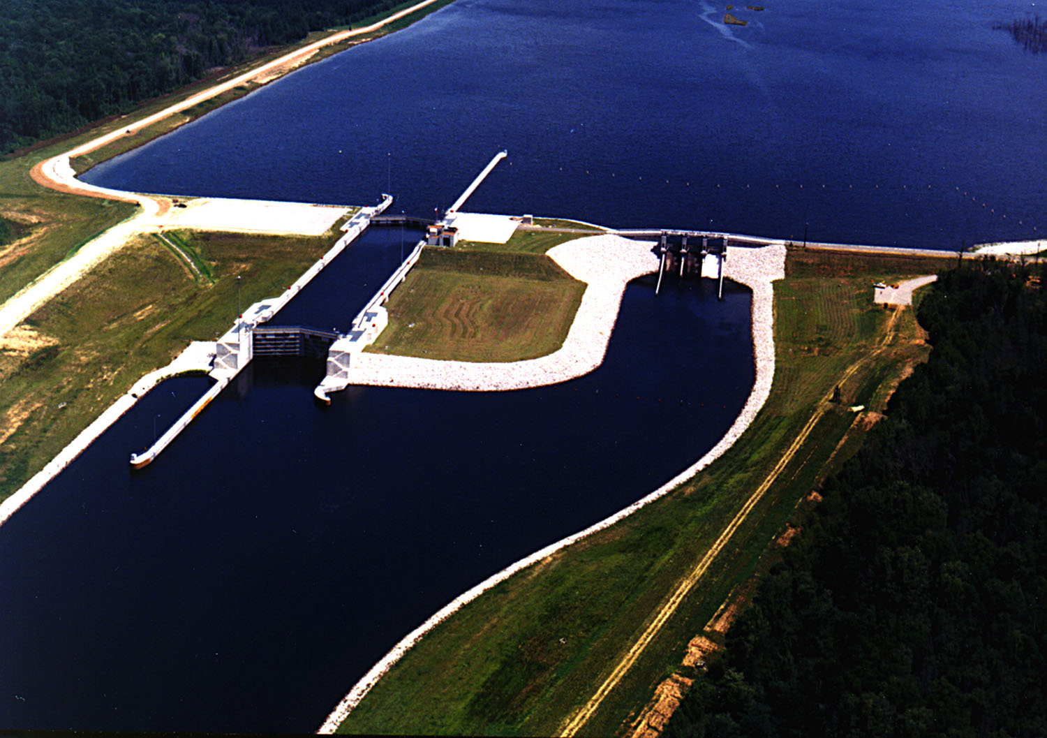 Aerial view of the John Rankin Lock and Dam on the Tennessee-Tombigbee Waterway. The lock is located approximately 6 miles (9.6 km) north of Fulton, Itawamba County, Mississippi, USA. The lock and dam were constructed by the U.S. Army Corps of Engineers as part of the Tennessee-Tombigbee project to provide barge navigation between the Tennessee River and the Gulf of Mexico. View is upriver to the north. Coordinates: 34°21′47.1″N 88°24′28.23″W / 34.363083°N 88.4078417°W